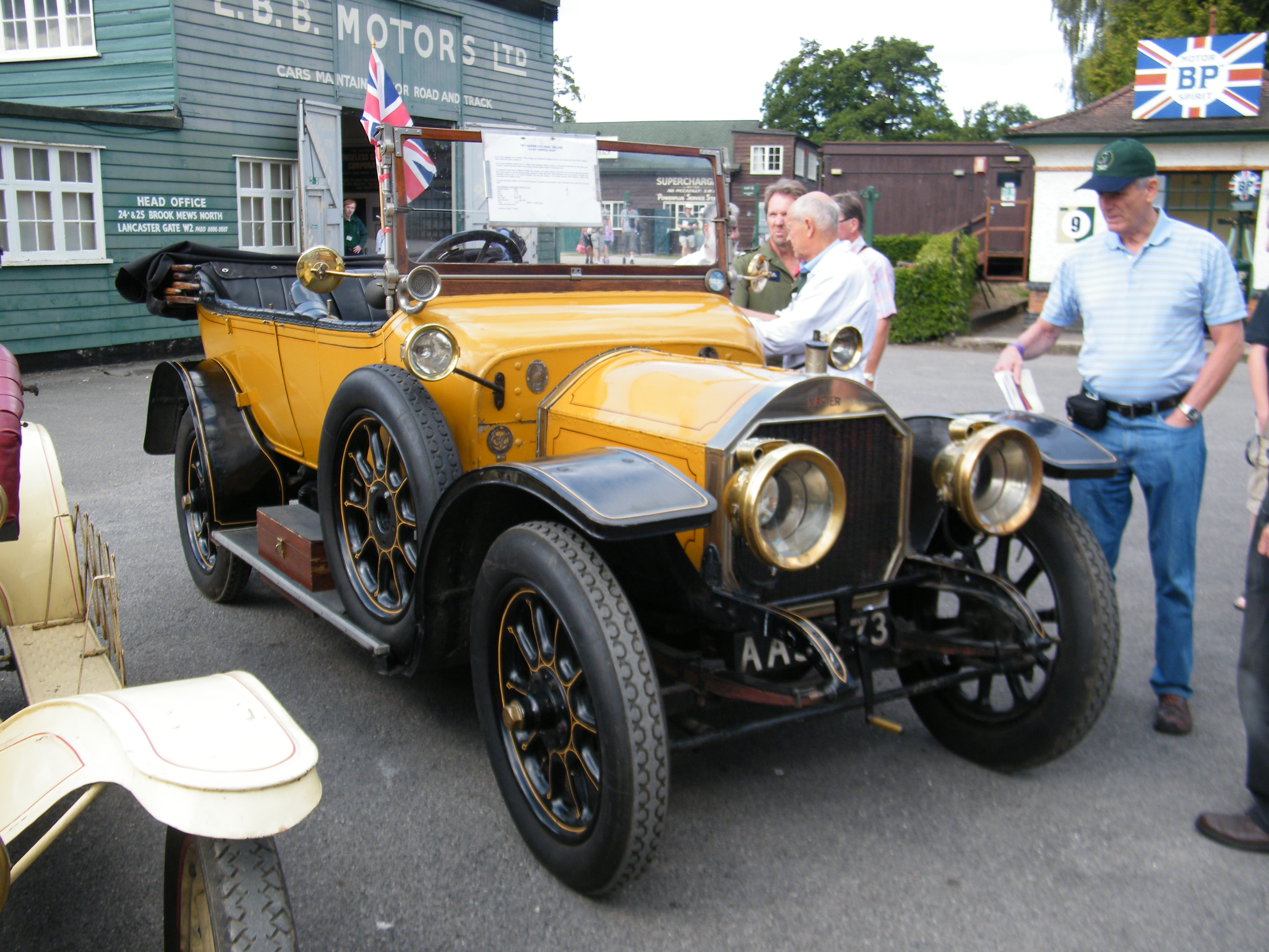 1911 Napier 15 hp Colonial tourer AA3573 Great War 100 Brooklands Weybridge 3 August 2014